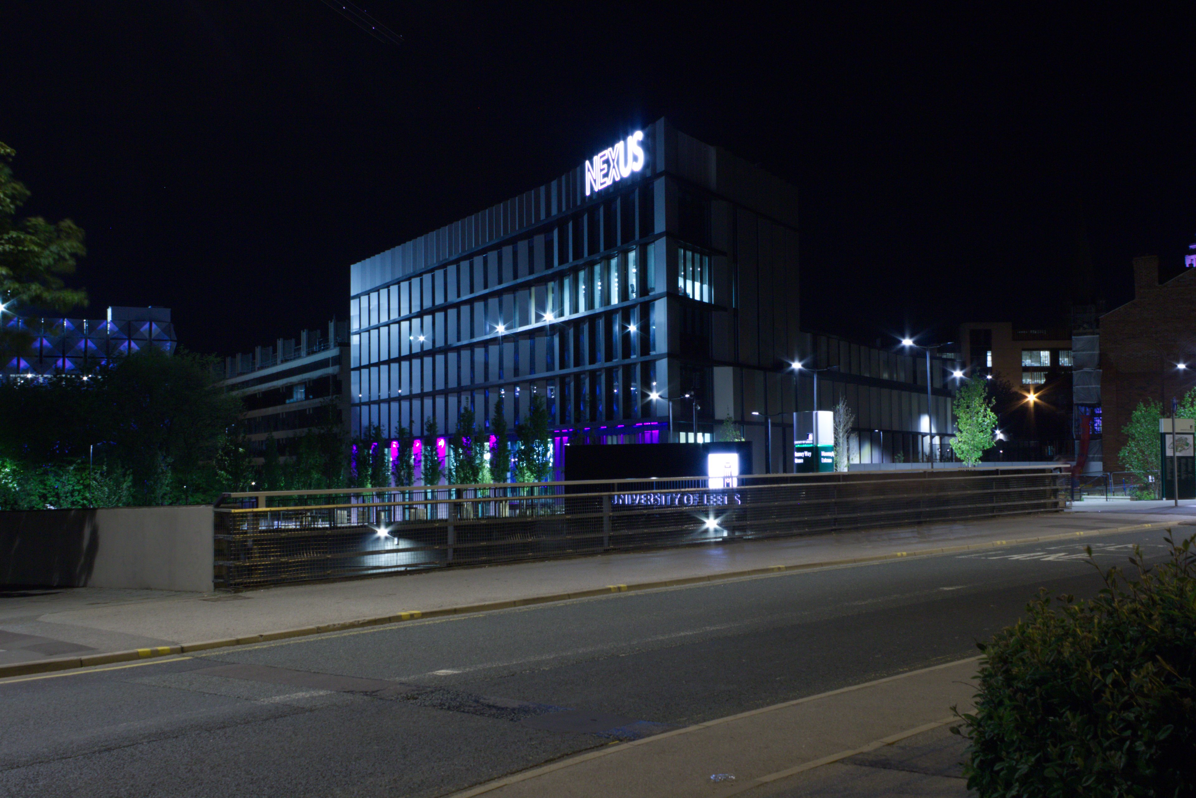 The new Nexus building at the University of Leeds.